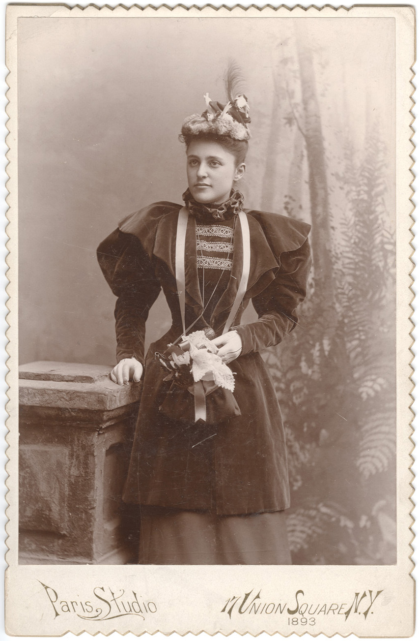 Card photographic portrait print of A.D. Menken, 1893; Alice Davis Menken Papers; P-23; box 2 ; folder 4; American Jewish Historical Society, Boston, MA and New York, NY. Finding aid: Original filename: P23B4F2LR